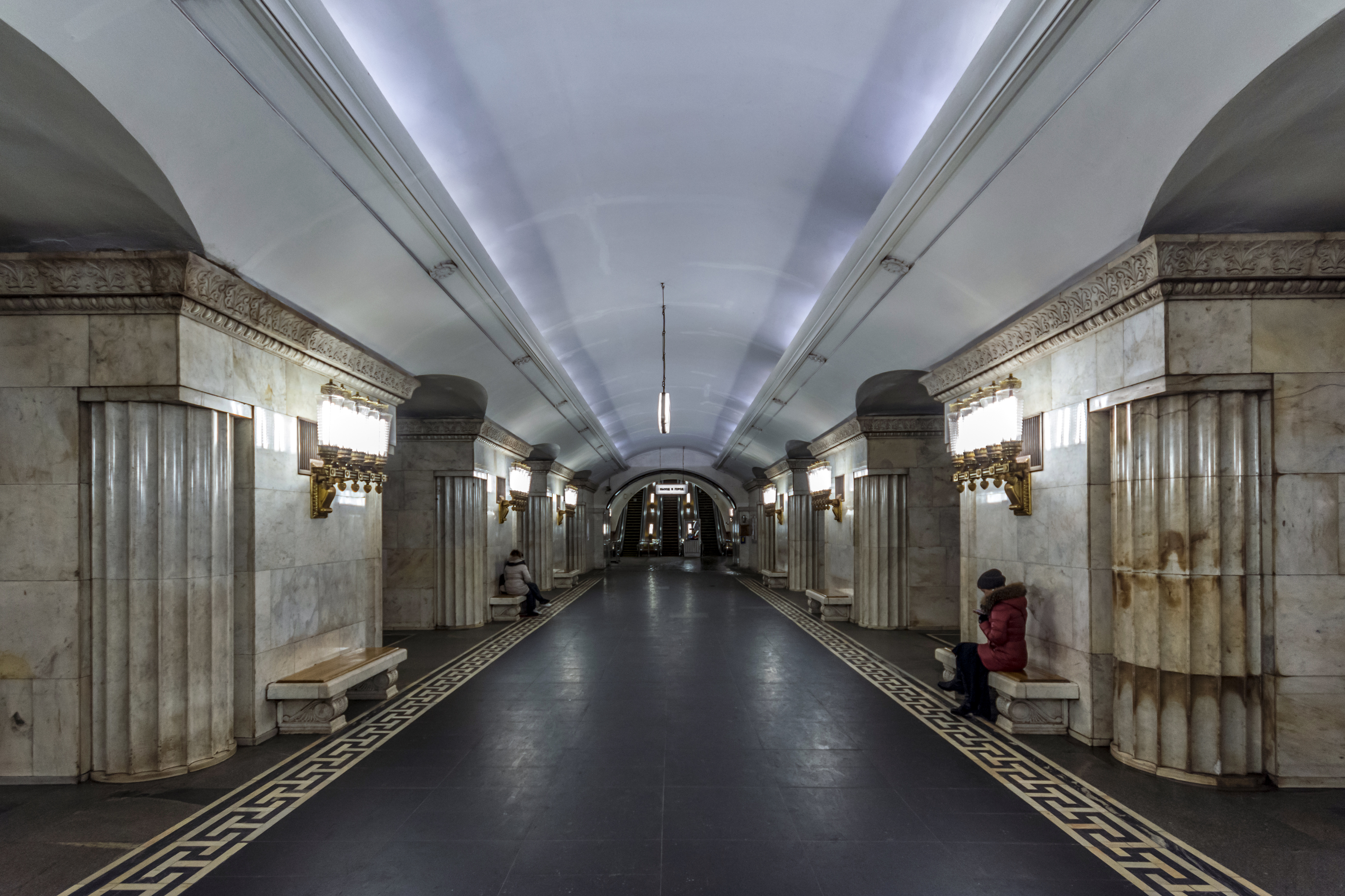 Smolenskaya Station of Moscow Subway